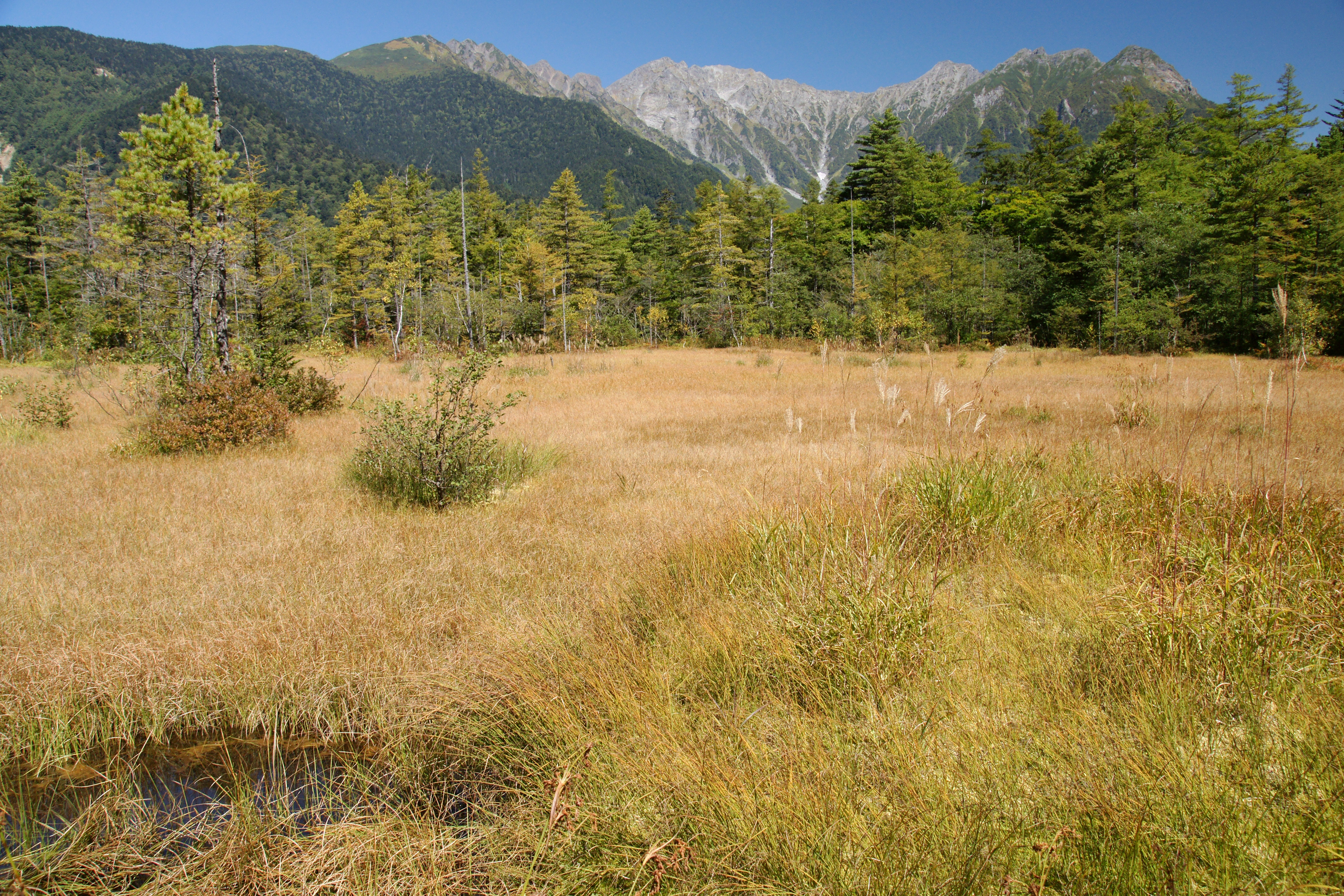 Tashiro-shitsugen at Kamikochi in Matsumoto, Nagano prefecture, Japan